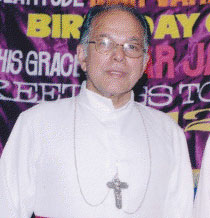 Mar Jacob Thoomkuzhy is the second Metropolitan Archbishop of the Syro-Malabar Catholic Archdiocese of Thrissur in India.